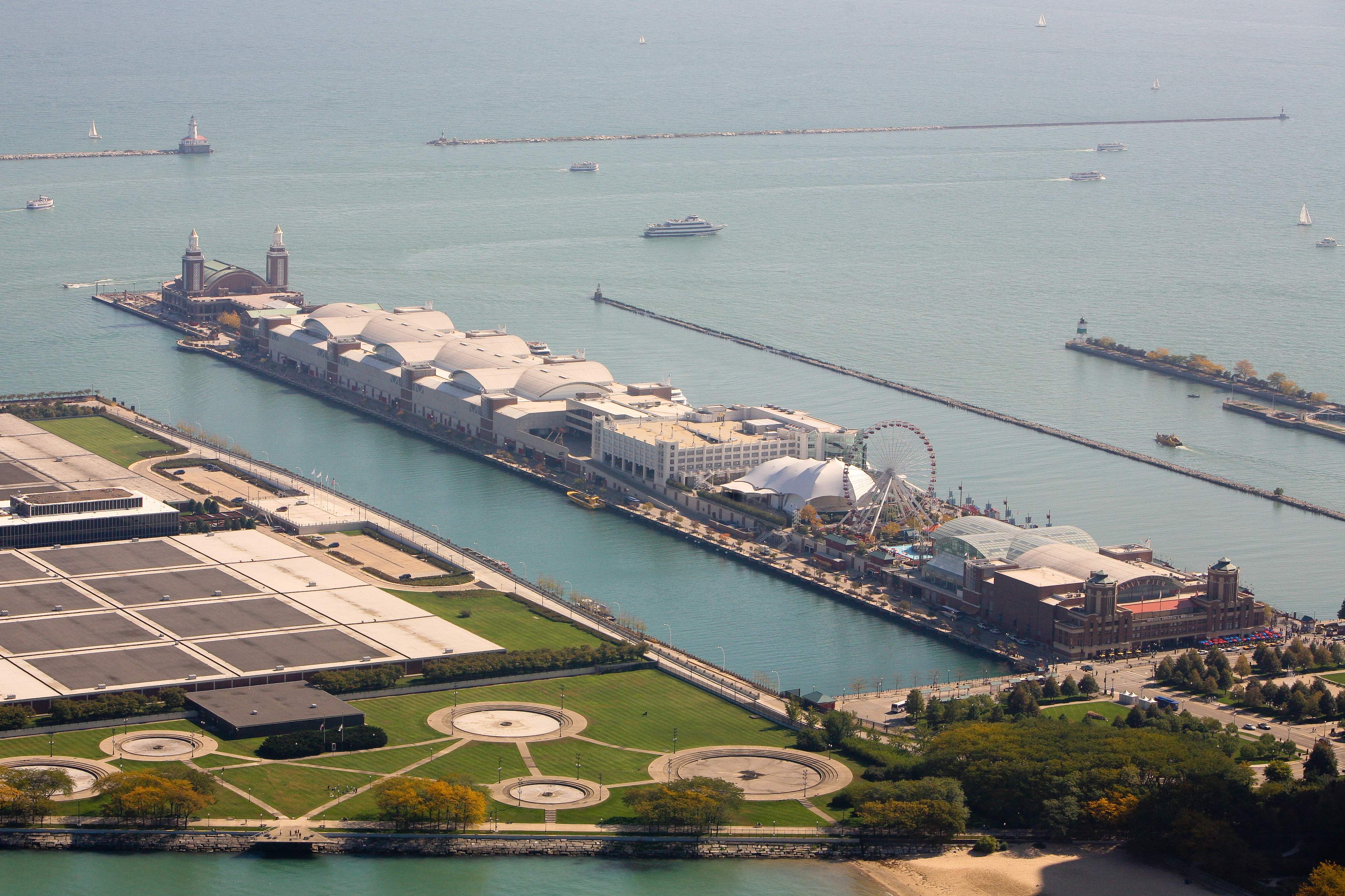 Navy Pier seen from the top of the John Hancock Building. Chicago, IL.